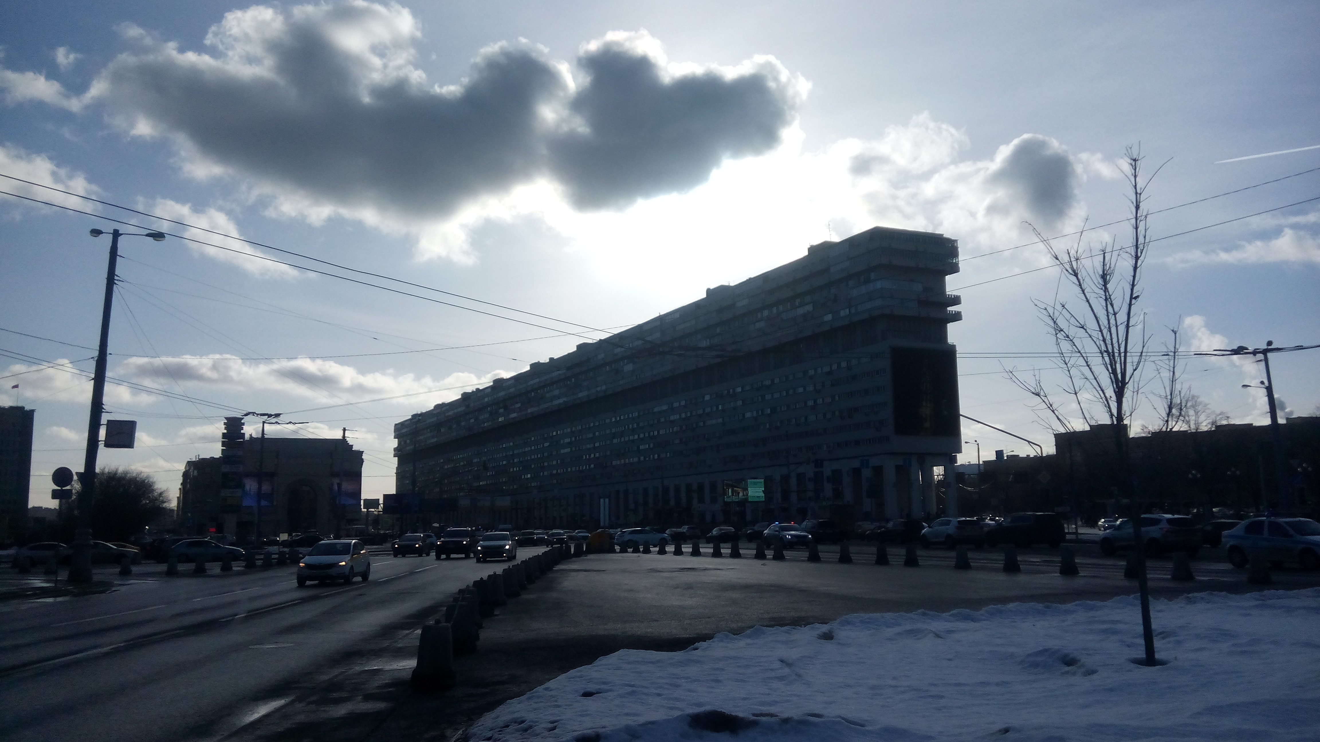 View of the "house of nuclear" (Bolshaya Tulskaya street, 2) from the Podolsk highway.